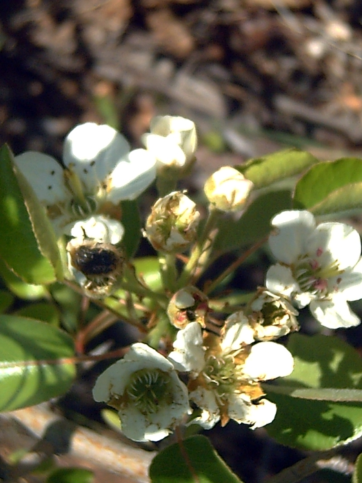 Pyrus bourgaeana Decen. flowers in a specimen in Solana del Pino, Spain.